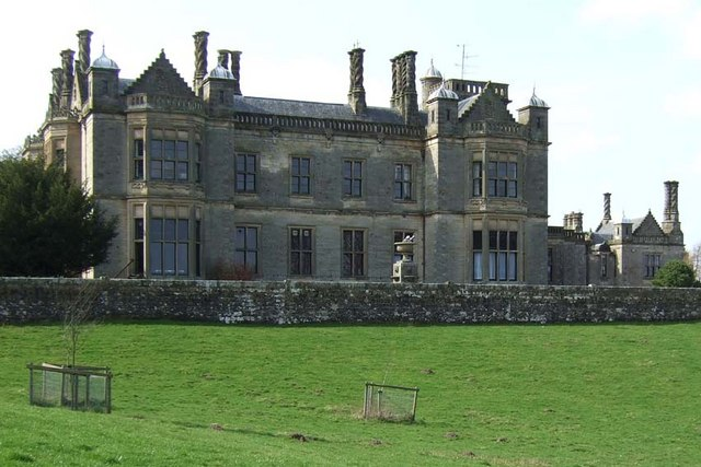 House of Falkland Originally the estate house, now leased by a residential school from Falkland Heritage Trust.